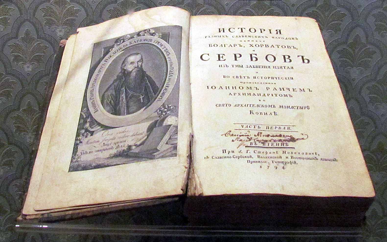 The History of various Slavic peoples, particularly the Bulgarians, Croats and Serbs bu Jovan Rajic